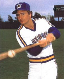 Professional baseball player Jim Anderson